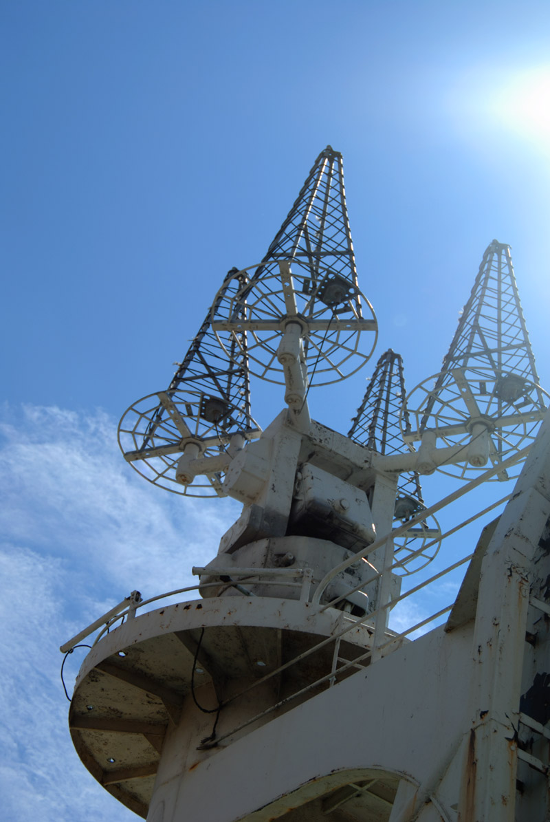 Antenna for VHF radiotelephone communication with manned space ships on research vessel "Kosmonavt Viktor Patzaev"